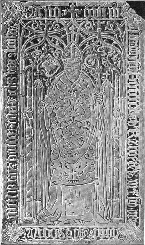 Drawing of ledger stone of bishop Konrad Loste (+ 1503) in Schwerin Cathedral, made in 1835; the stone broke during restoration work in 1866/67